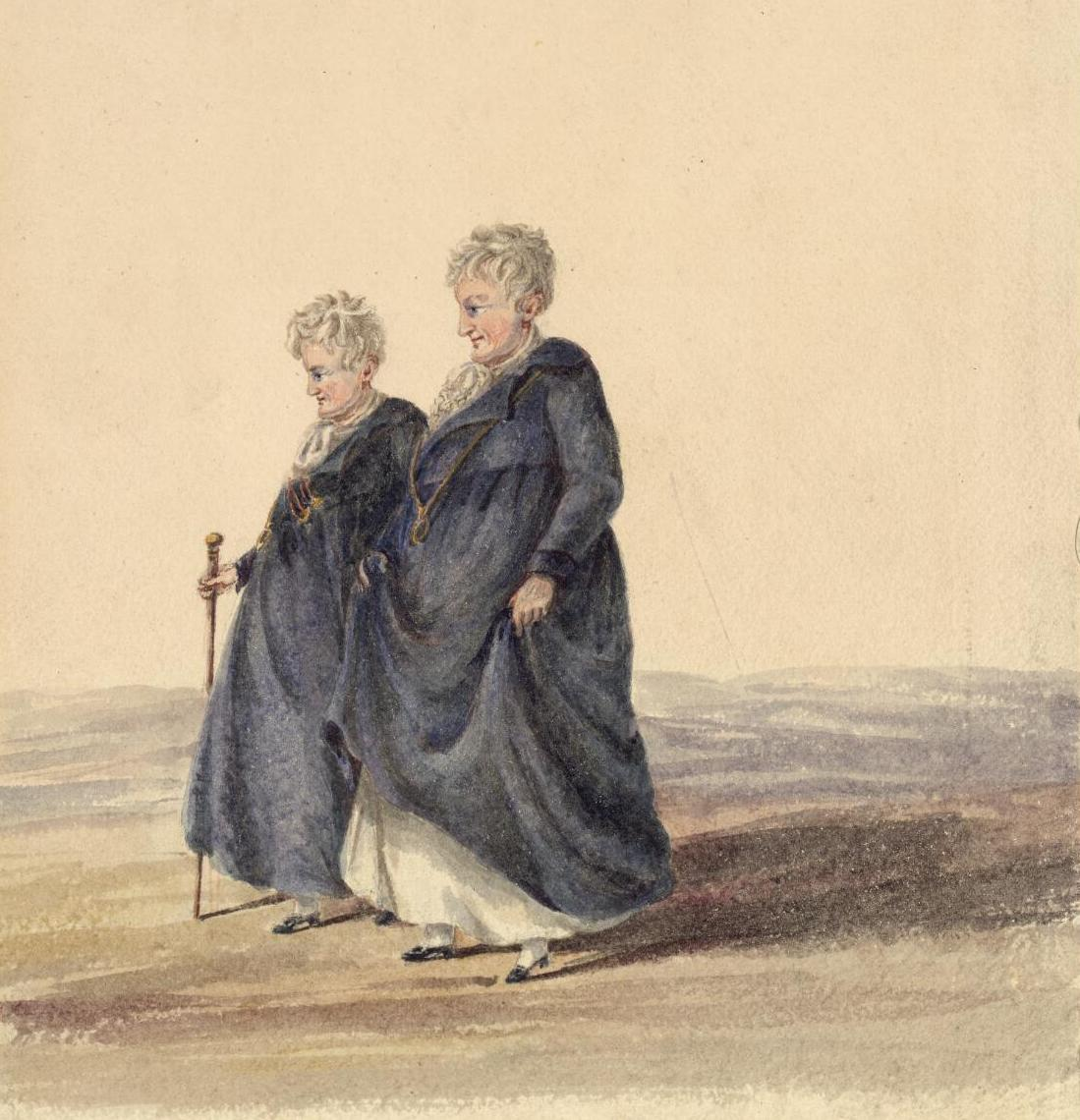 A portrait from the Welsh Portrait Collection at the National Library of Wales. Depicted person: Ladies of Llangollen